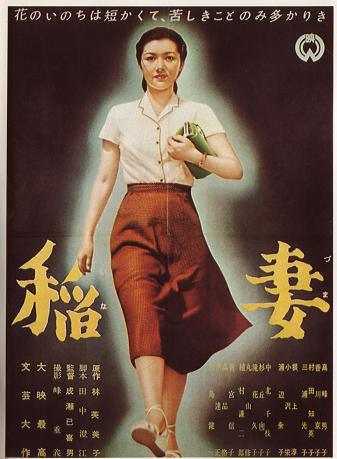 1952 Japanese movie poster for 1952 Japanese film Lightning (稲妻 Inazuma) featuring Hideko Takamine as Kiyoko.